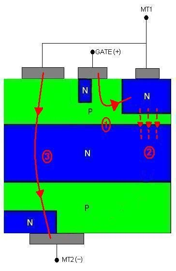 Turn-on process of a TRIAC in Quadrant IV